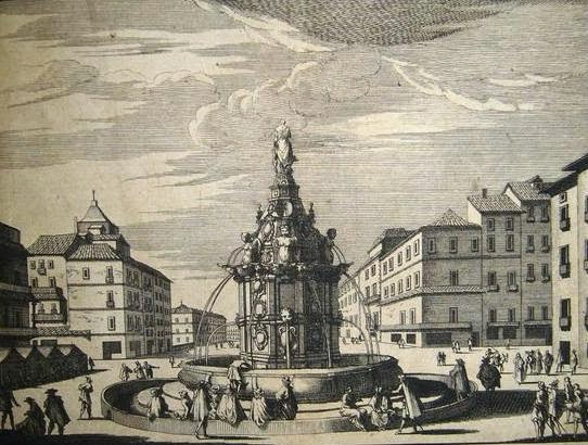 Fountain of the Harpies (also called Fountain of the Faith), was a fountain located in the Puerta del Sol, in Madrid.[4]. Engraved copy in 1707.